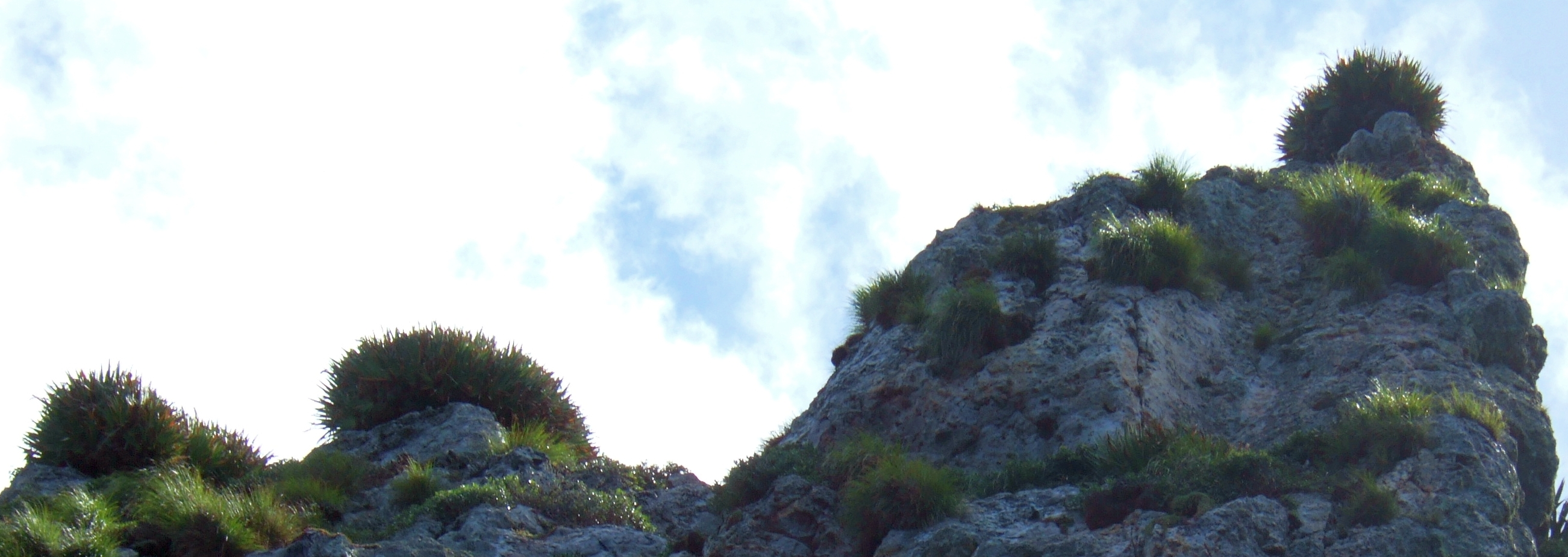 Xeronema callistemon growing on one of the Poor Knights Islands (the large bushy plants on the skyline)